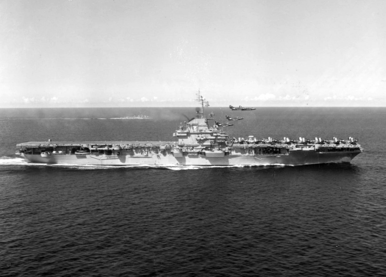 A flight of U.S. Navy Grumman F9F-6 Cougars of Fighter Squadron VF-91 Red Lightnings, Carrier Air Group 9 (CVG-9), makes a pass over the aircraft carrier USS Hornet (CVA-12) as she steams in the Pacific during her around-the-world cruise.